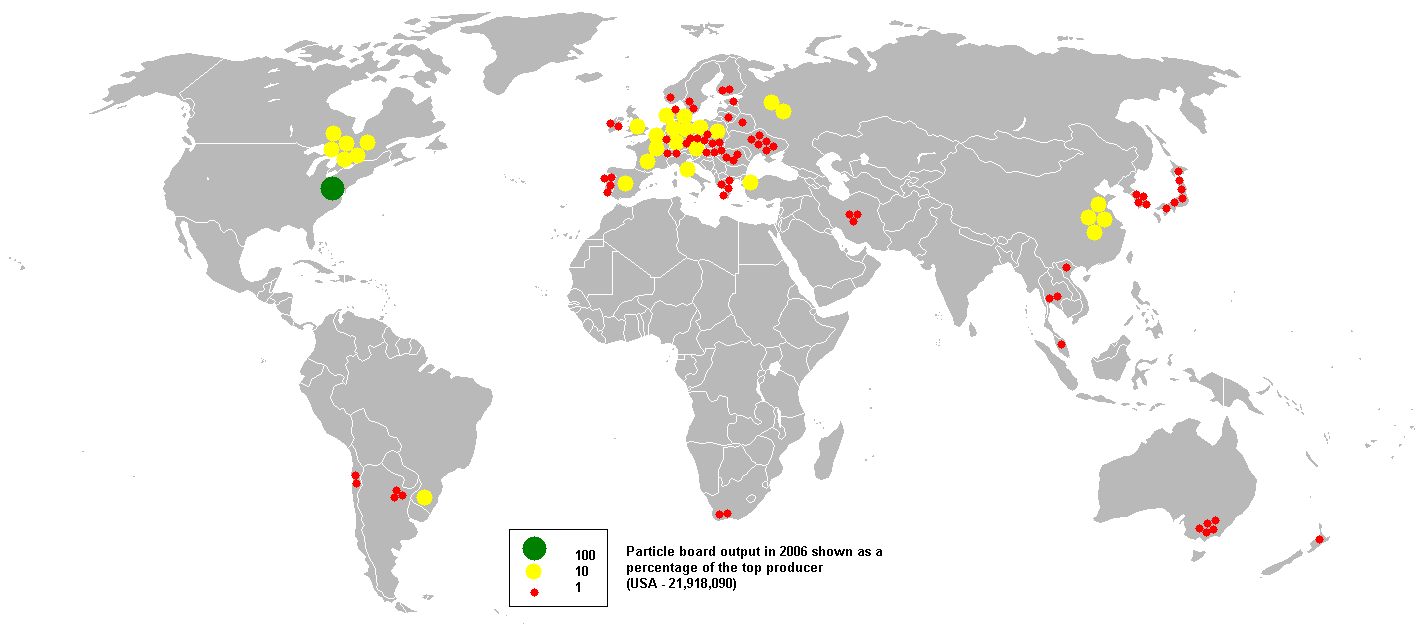 This bubble map shows the global distribution of particle board output in 2006 as a percentage of the top producer (USA - 21,918,090 tonnes). This map is consistent with incomplete set of data too as long as the top producer is known. It resolves the accessibility issues faced by colour-coded maps that may not be properly rendered in old computer screens.